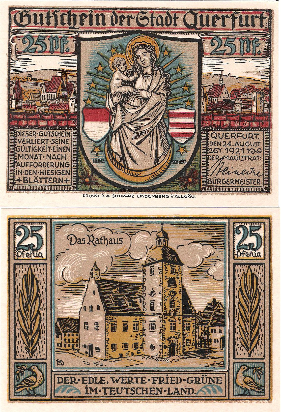 local emergency money, Querfurt 1921